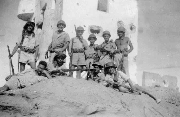 Defenders of Kibbutz Nirim in southern Israel after the battle on May 15, 1948.